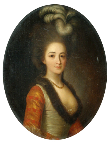 Portrait of Anna Semenovna Sheremeteva (1759-1821)